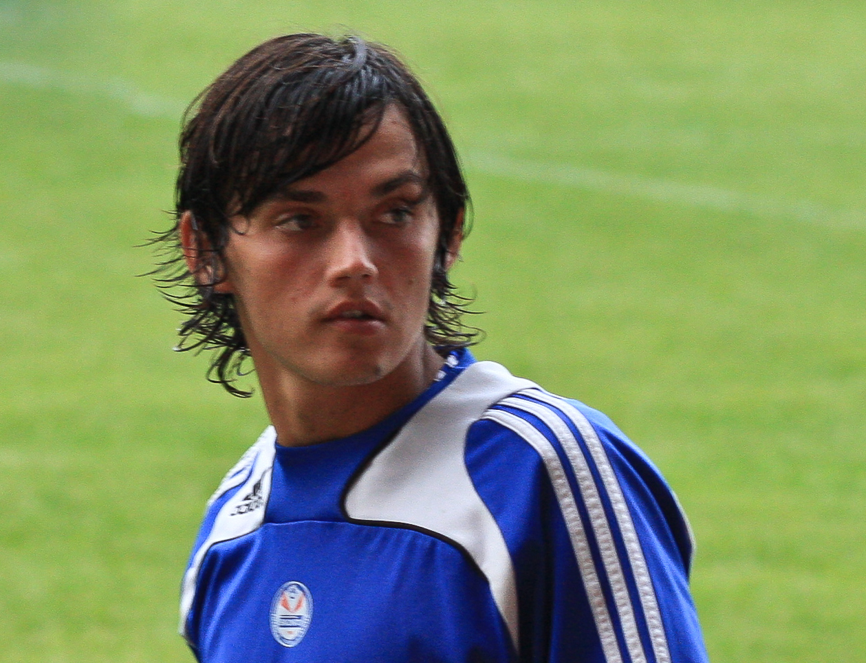 Igors Tarasovs, Latvian football player